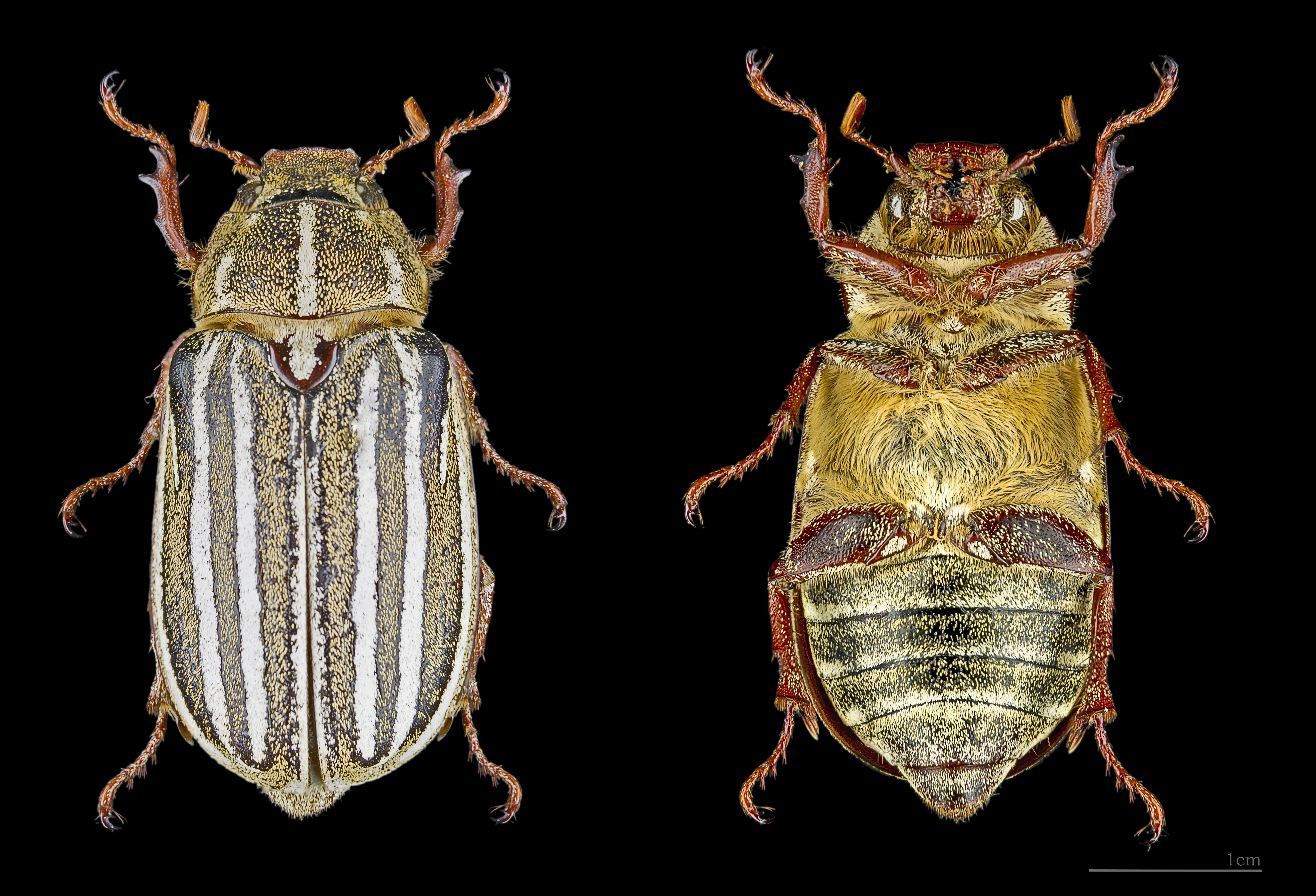 Ten-lined June beetle - Two views of same specimen